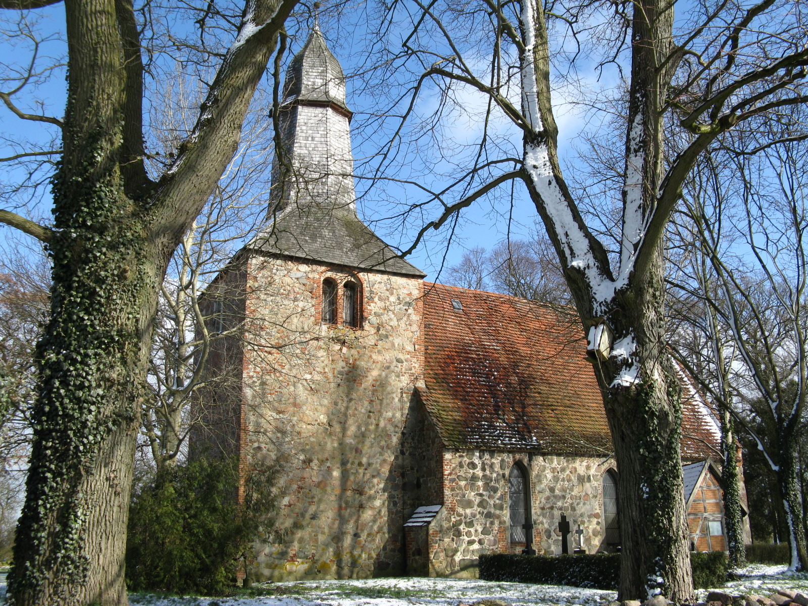 Church in Kladrum (Mecklenburg), Germany